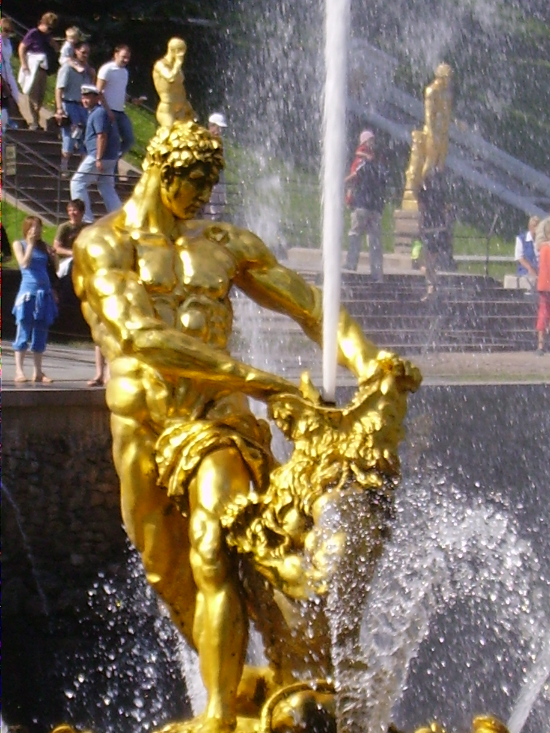 Samson Rending open the Jaws of the Lion by Mikhail Kozlovsky